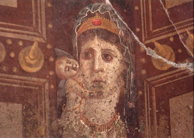 An ancient Roman wall painting in Room 71 of the House of Marcus Fabius Rufus at Pompeii, Italy, showing Venus with a cupid's arms wrapped around her. It is most likely a depiction of Cleopatra VII of Ptolemaic Egypt as Venus Genetrix, with her son Caesarion as a cupid. It was most likely painted in conjunction with the September 46 BC foundation of the Temple of Venus Genetrix in the Forum Iulium (i.e. Forum of Caesar) by Julius Caesar, where he erected a gilded statue depicting Queen Cleopatra (as described by Appian in his 2nd-century AD Bella Civilia). Further information on this painting and the identification as Cleopatra VII and Caesarion in it can be found on page 175 in the following source: * Roller, Duane W. (2010). Cleopatra: a biography. Oxford: Oxford University Press. ISBN 9780195365535. For further photographs and explanation, see "VII.16.22 Pompeii. Casa di Fabio Rufo or House of M Fabius Rufus."